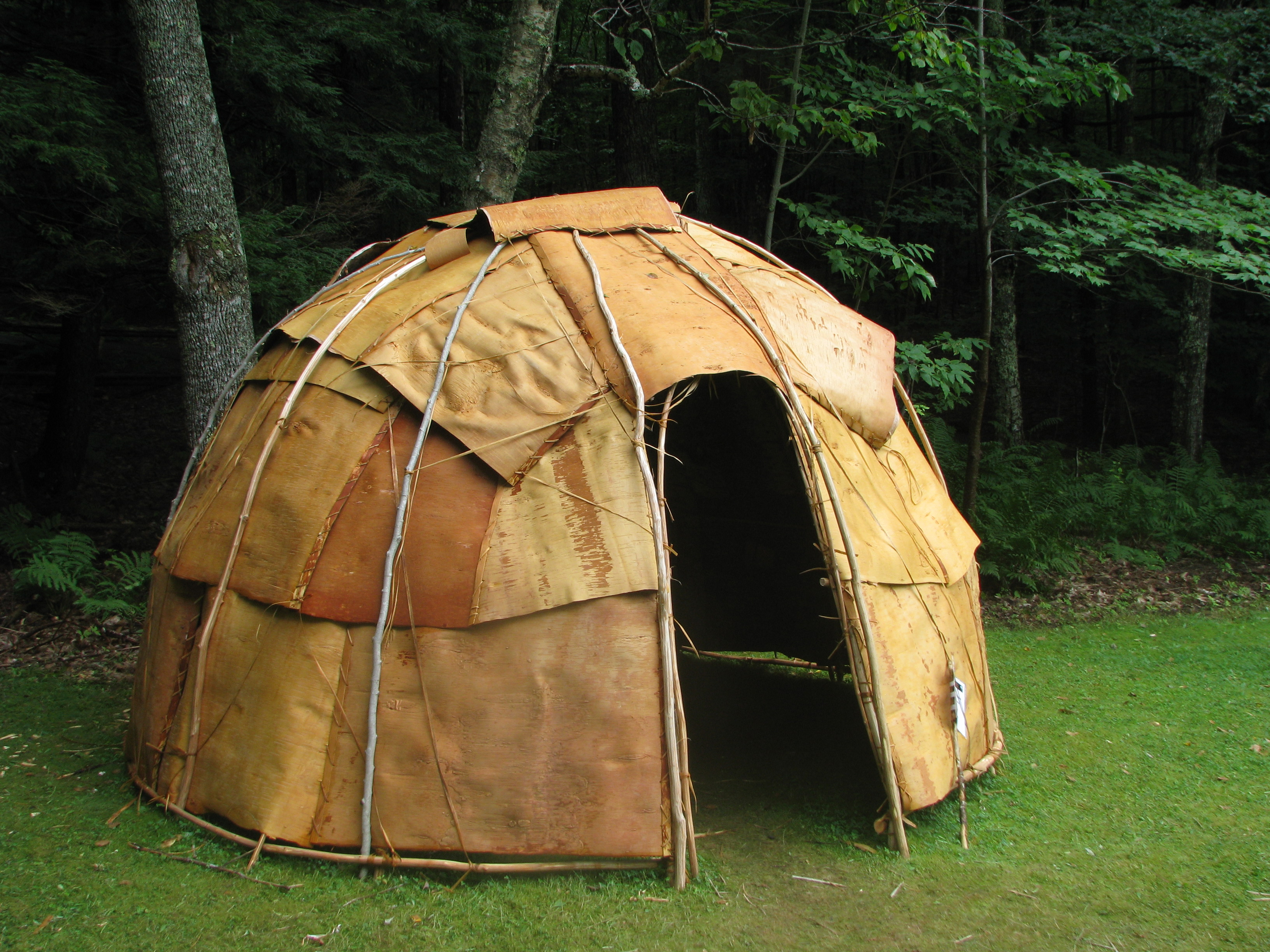 A Penobscot birch bark wigwam built by Barry Dana and his family, August 3 & 4, 2011, near Abbe Museum in Acadia National Park, Maine, USA